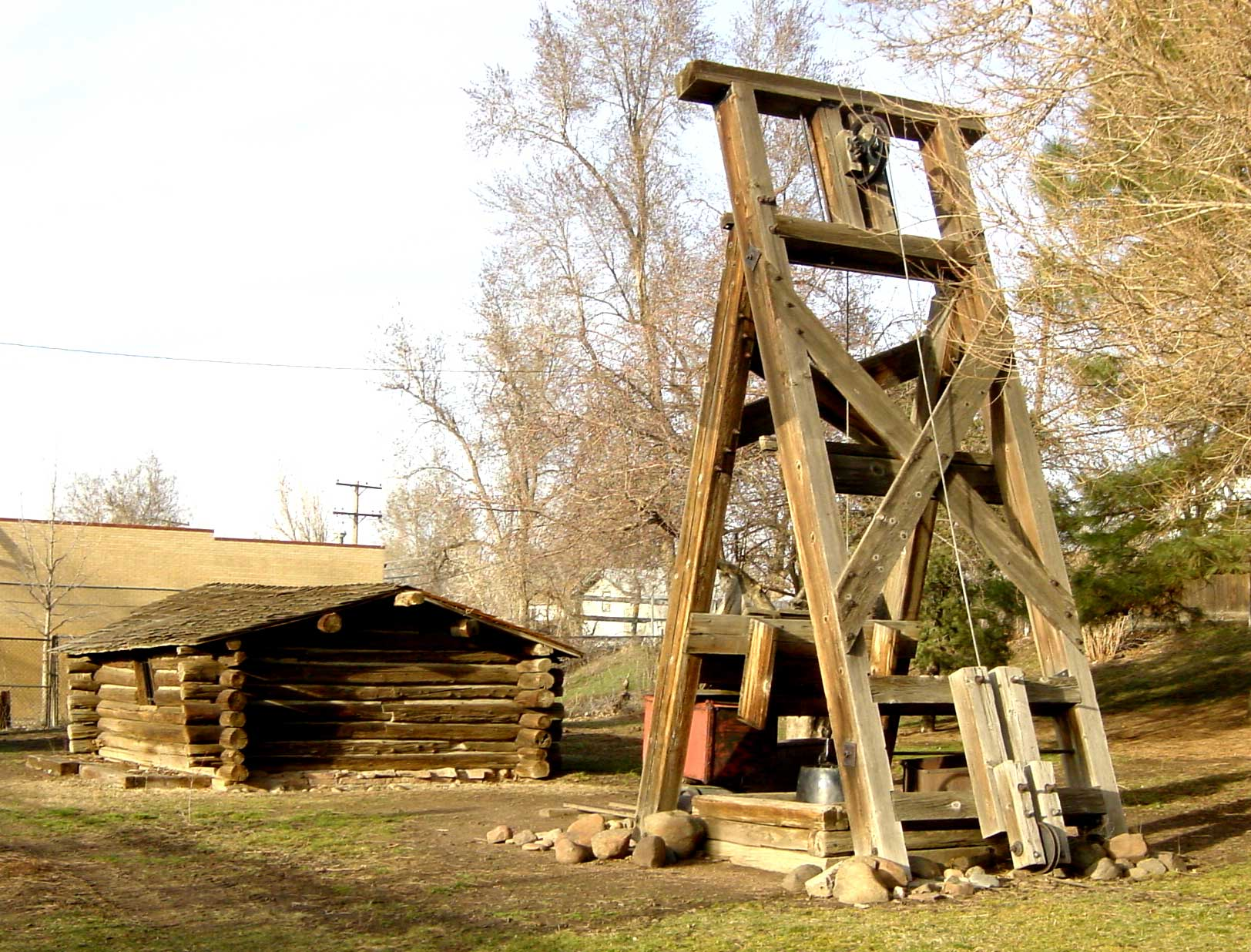 Reconstructed cabin and mine headframe at Grant-Frontier Park in Denver, Colorado, USA, site of the former settlement of Montana City, Colorado.